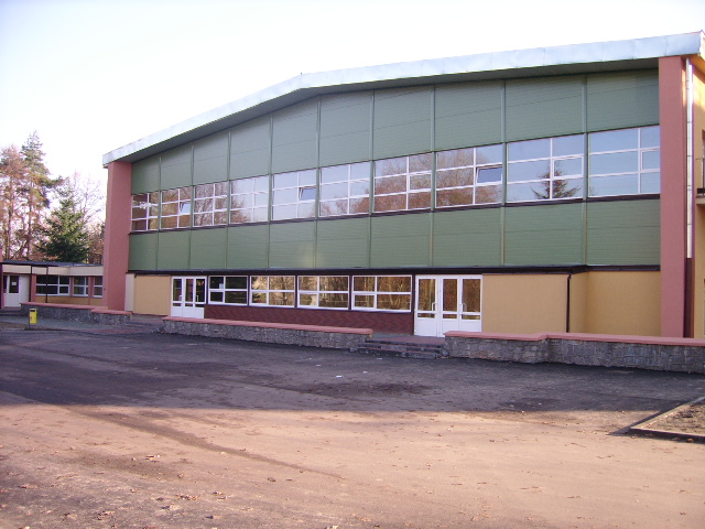 3 Sosnowa Street in Pionki